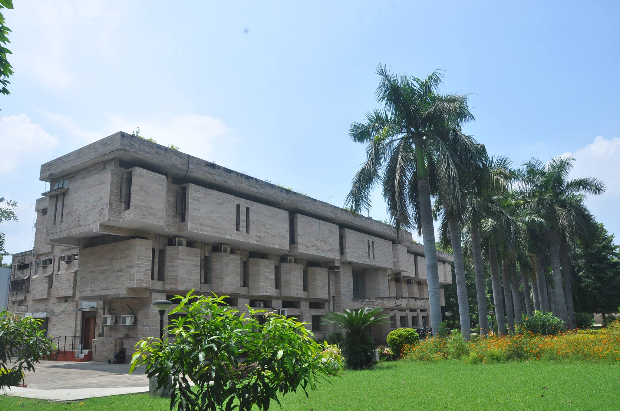 The outside of Govind Ballabh Pant Social Science Institute (Allahabad/Prayagraj, India)